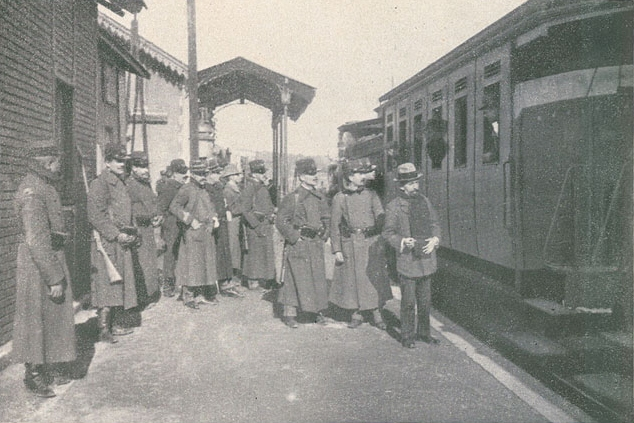 Republican guard at the Campolide train station, in the city of Lisbon, in Portugal, during a railway workers strike. This image was published on the Ilustração Portuguesa magazine No. 414, of the 26th January 1914, scanned by the Hemeroteca Municipal de Lisboa.